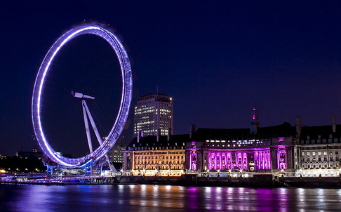 London Eye